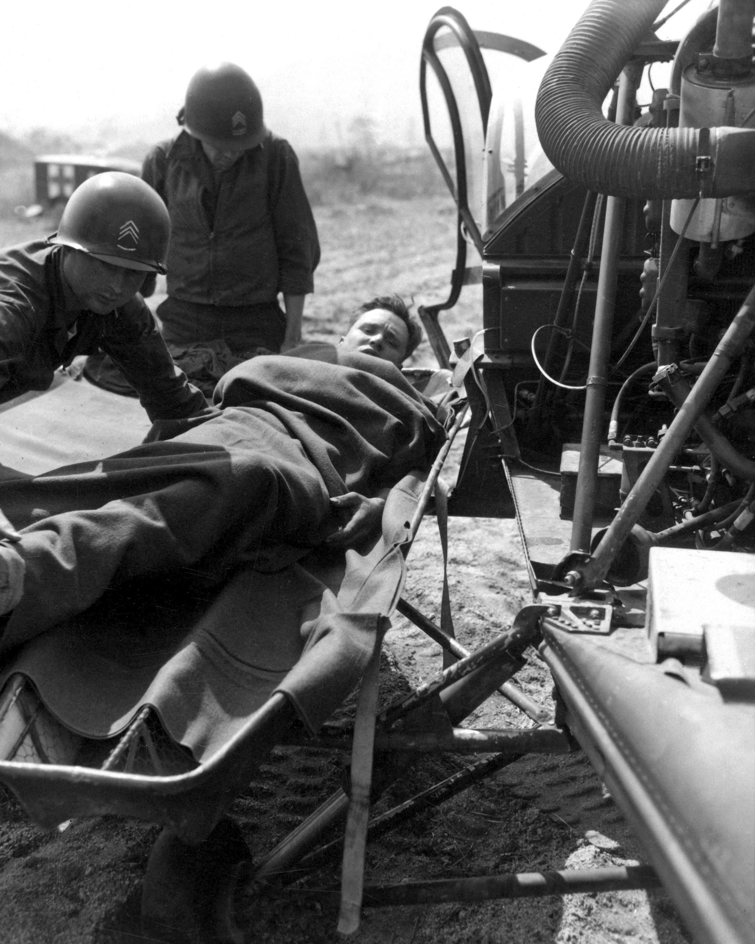 A wounded American is lifted onto a helicopter at the 21st Inf. Regt. collecting station at Painmal, Korea, one mile sout of the 38th Parallel, for evacuation to a base hospital. April 3, 1951 NARA FILE # III-SC-362636 WAR & CONFLICT BOOK #: 1451